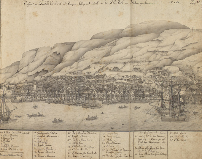 Prospect of Bryggen in Bergen (Norway) by J. J. Reichborn (1768)